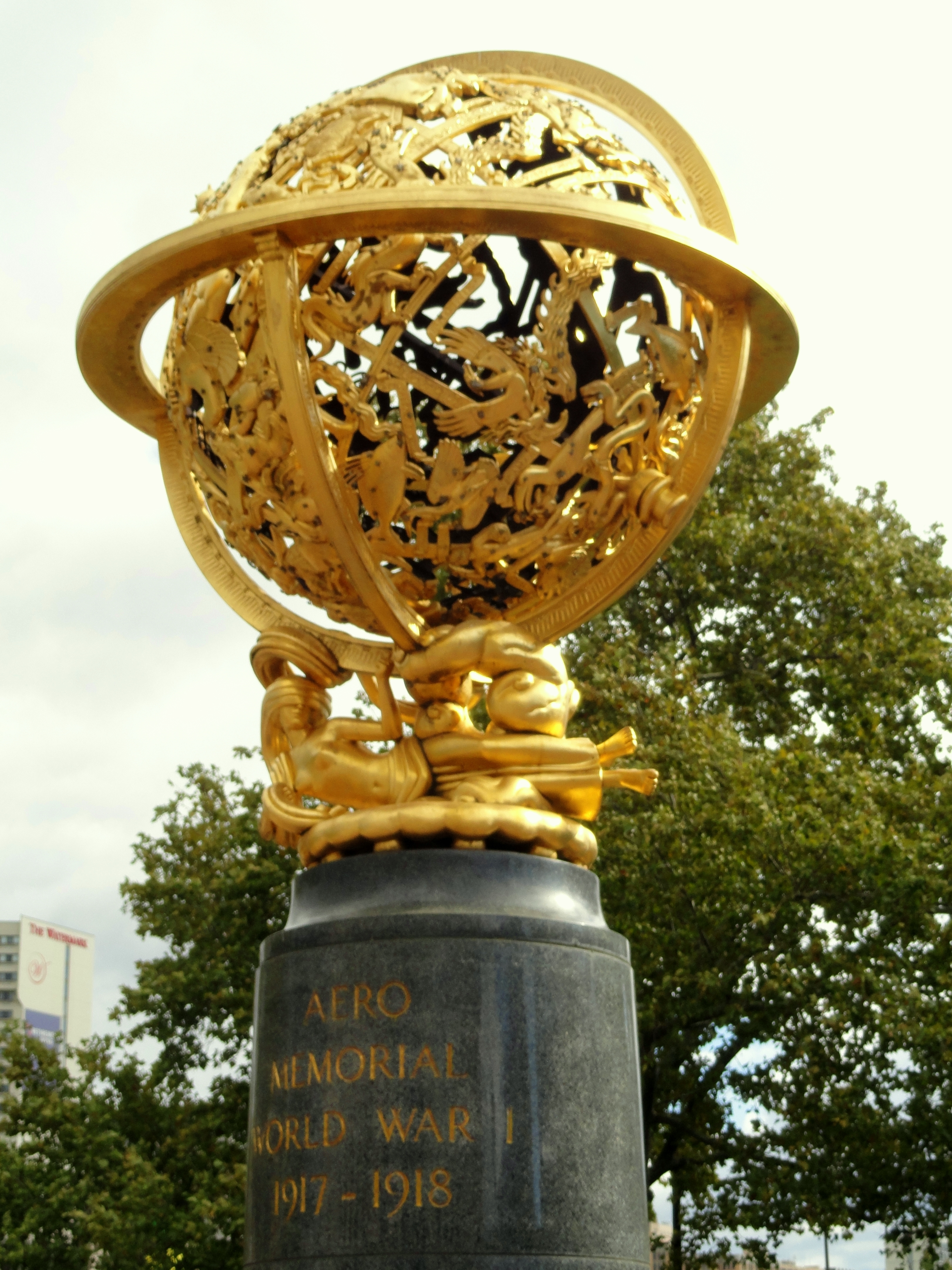 Aero Memorial by Paul Manship, 1950. Currently located on Landsdowne Drive near Memorial Hall (West side of Fairmount Park), Philadelphia, Pennsylvania, USA.